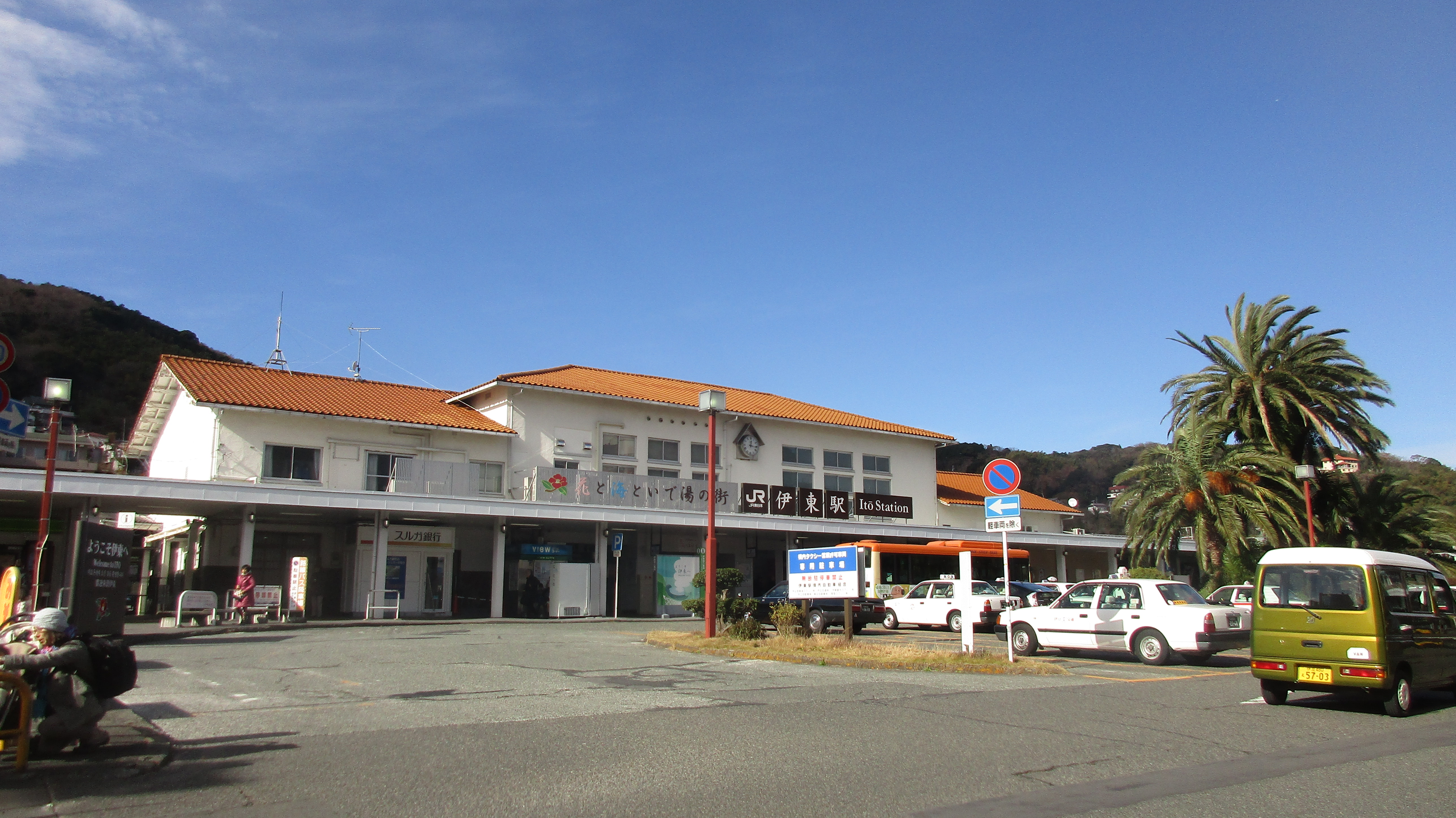 JR伊東線 伊東駅舎